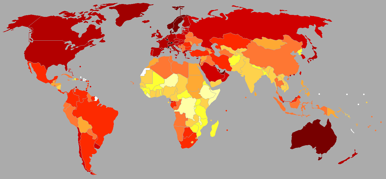 GDP per capita 2011